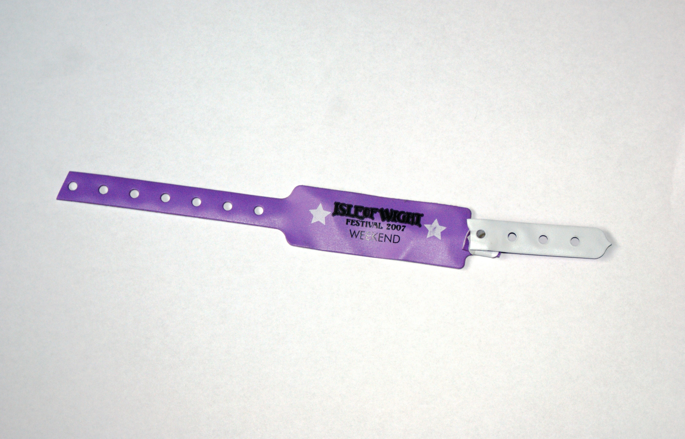 A wristband for the Isle of Wight Festival in 2007.